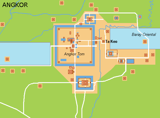 Ta Keo plan, from “Karta AngkorWat.PNG”. Angkor. Cambodia